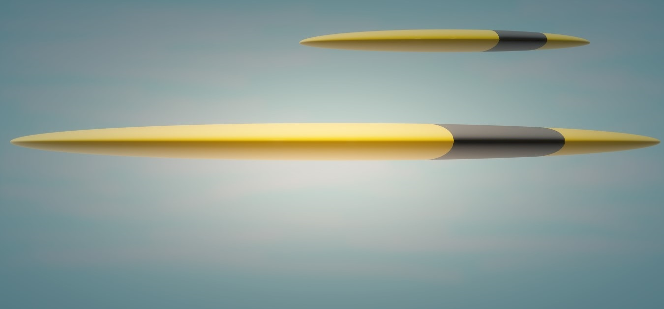 Illustration of two UFOs, "of exactly the same design", observed hovering in the same field of view in Class A controlled airspace near Alderney from 14:06 to 14:18 on 23 April 2007. The illustration is based on notes and a drawing made by Capt. Ray Bowyer,[1] who placed the nearest object at an altitude of 2,000 ft. Capt. Patrick Patterson, observing from another direction and altitude, and some 20 miles from the same object, placed it similarly at 1,950 ft. Due to relative movements of the observers and two objects, the latter appeared to line up at one point, and could be seen right above one another.[1] Capt. Bowyer revised his initial size estimate (Size of 737) during the return flight, when he realized that it had been visible from 40 to 55 miles rather than a 5, 7 or 10 miles distance, as he initially assumed.[2] The colour of the dark area was "graphite grey", and while not luminous, had some transient coloured effects along its edge. The luminous parts were exceptionally radiant and orangey yellow in colour. The following note was part of the report that was sent to the CAA and MoD before the actual size of the objects became apparent: Notes: Unidentified object seen. Bright yellow thin, stationary. Size of 737. 2nd object same shape seen behind first at some distance. — brilliant yellow – dark area ↑ (2013) The UFO Files: The Inside Story of Real-life Sightings, A C Black, p. 167 ISBN: 9781408194829.